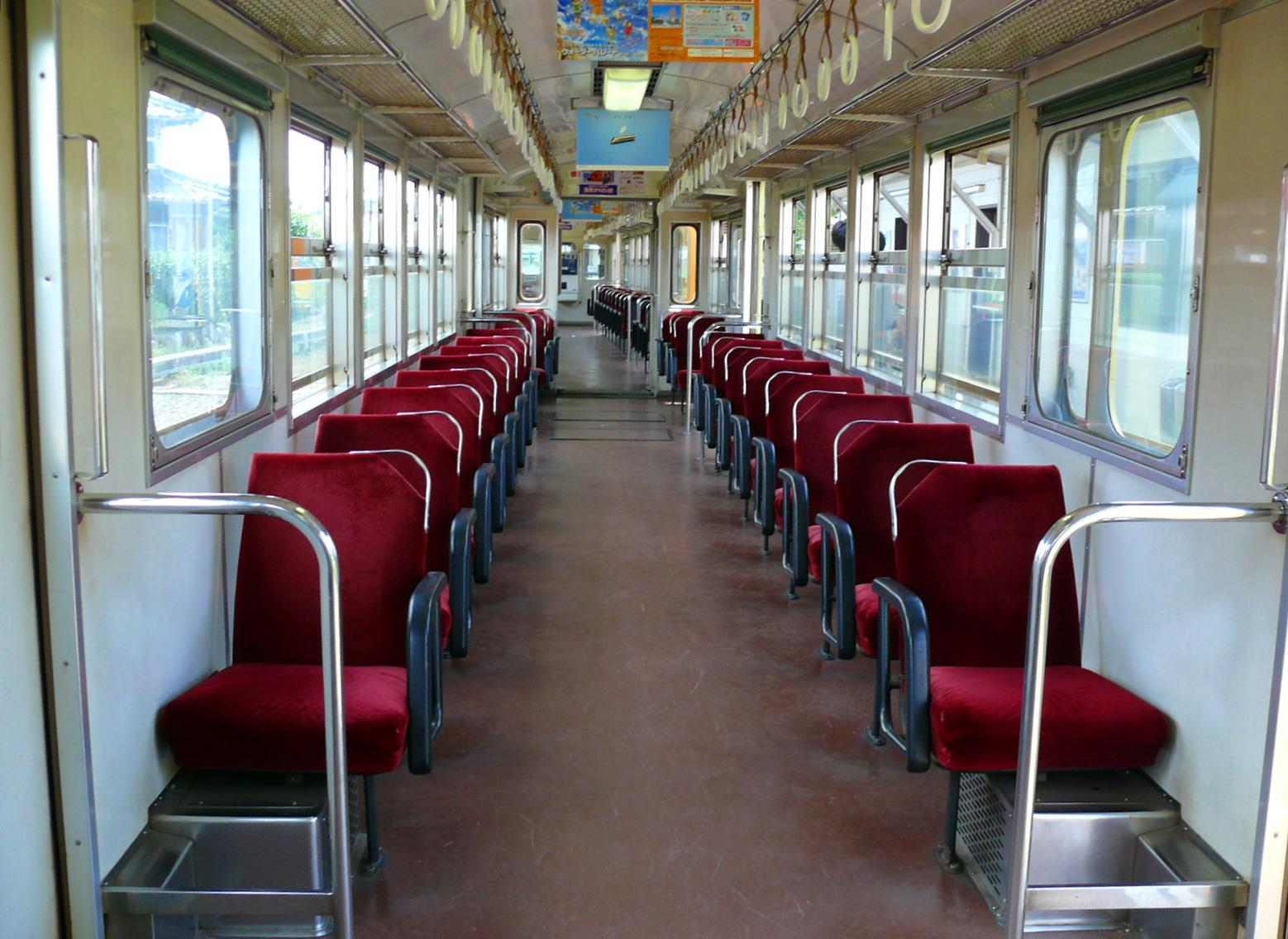 Kintetsu Type 260 Train Interior. See also Ja:近鉄260系電車 for more information(written in Japanese). 近鉄260系電車の車内。